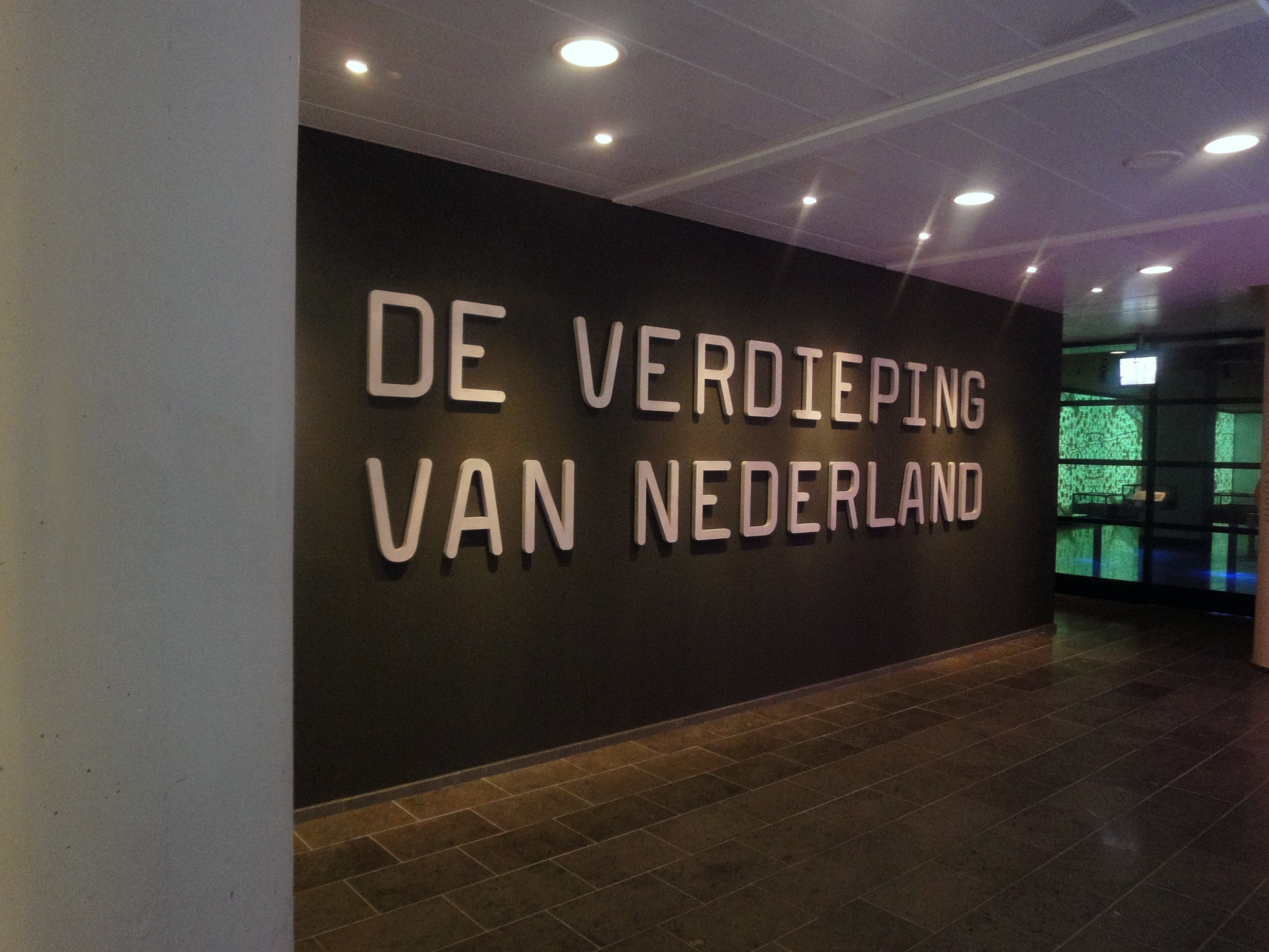 "Verdieping van Nederland" inside the royal library in The Hague